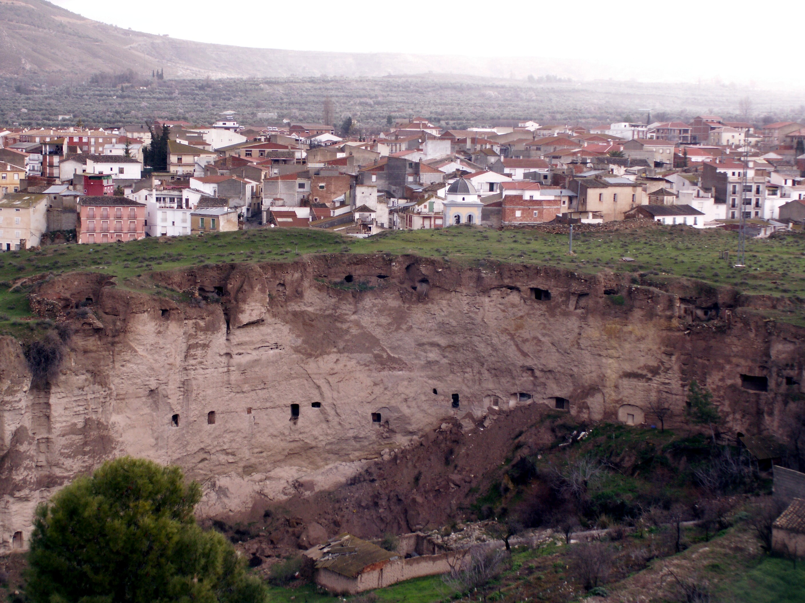 Zújar, Spain